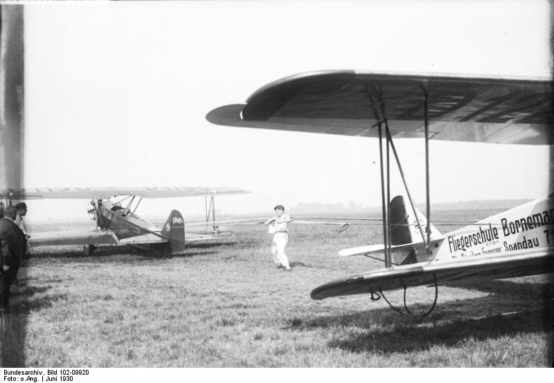 A circus strong man act at Flugplatz Staaken using two Raab-Katzenstein RK-2 Pelikan trainers, (D-1222 and D-1190).